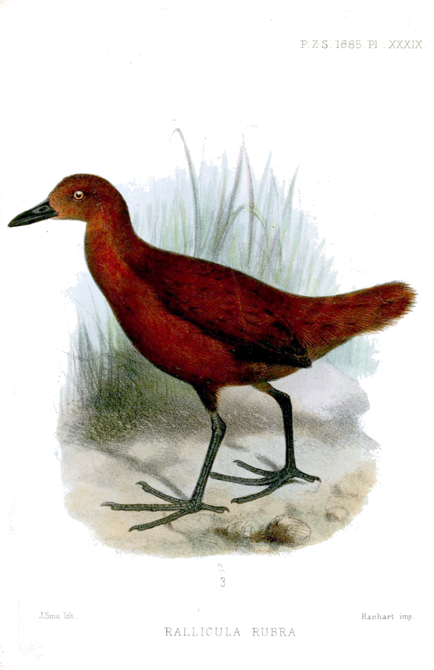 Chestnut Forest-rail, adult male